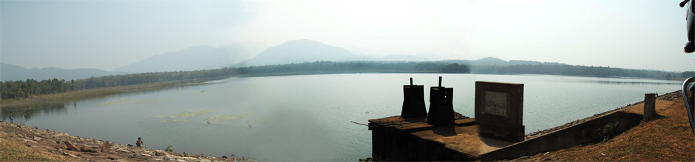 This media file is uploaded with Odia loves Wikipedia Dandaghat dam, Kuladiha Wildlife Sanctuary, Baleswar district, Odisha